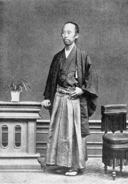 Noritane Ninagawa was a Japanese pottery collector passed 1882.